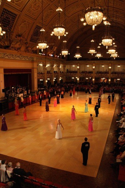 A photograph taken at the 2007 British Seqeunce Championships